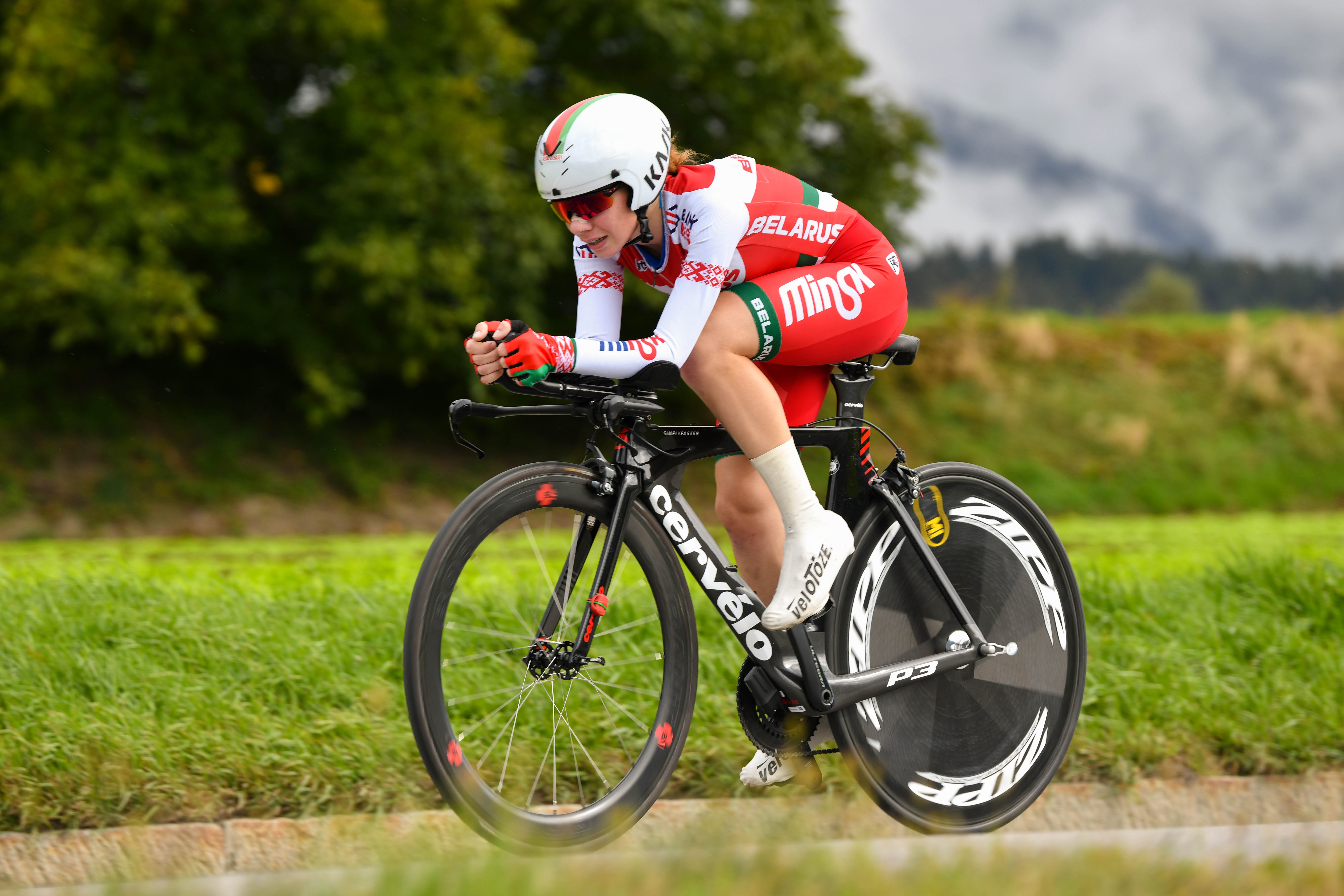 2018 UCI Road World Championships Innsbruck/Tirol Women Juniors Individual Time Trial. Picture shows: Anastasiya Kolesava (BLR)